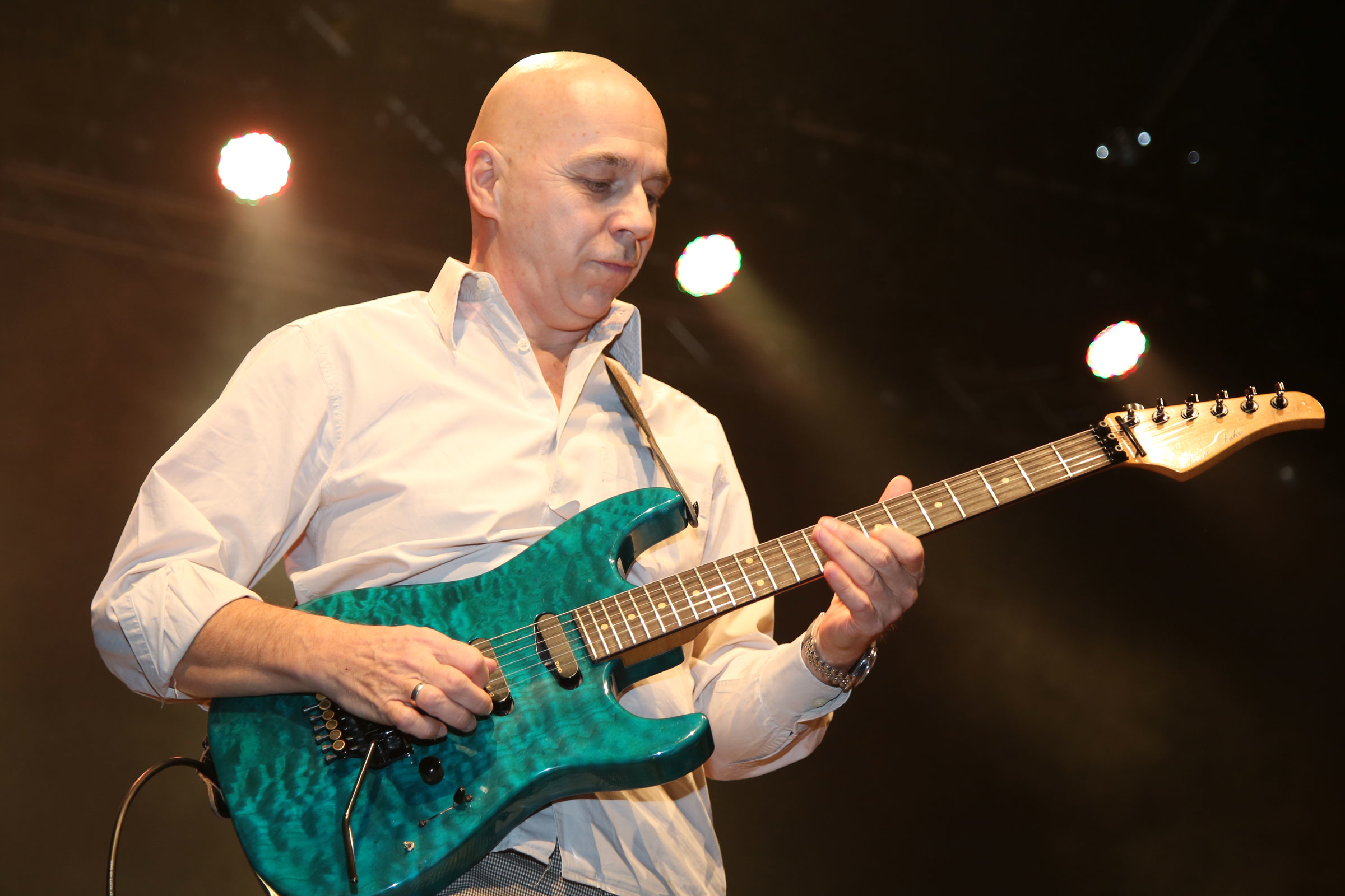 20 years Count Basic celebration at Vienna´s Gasometer